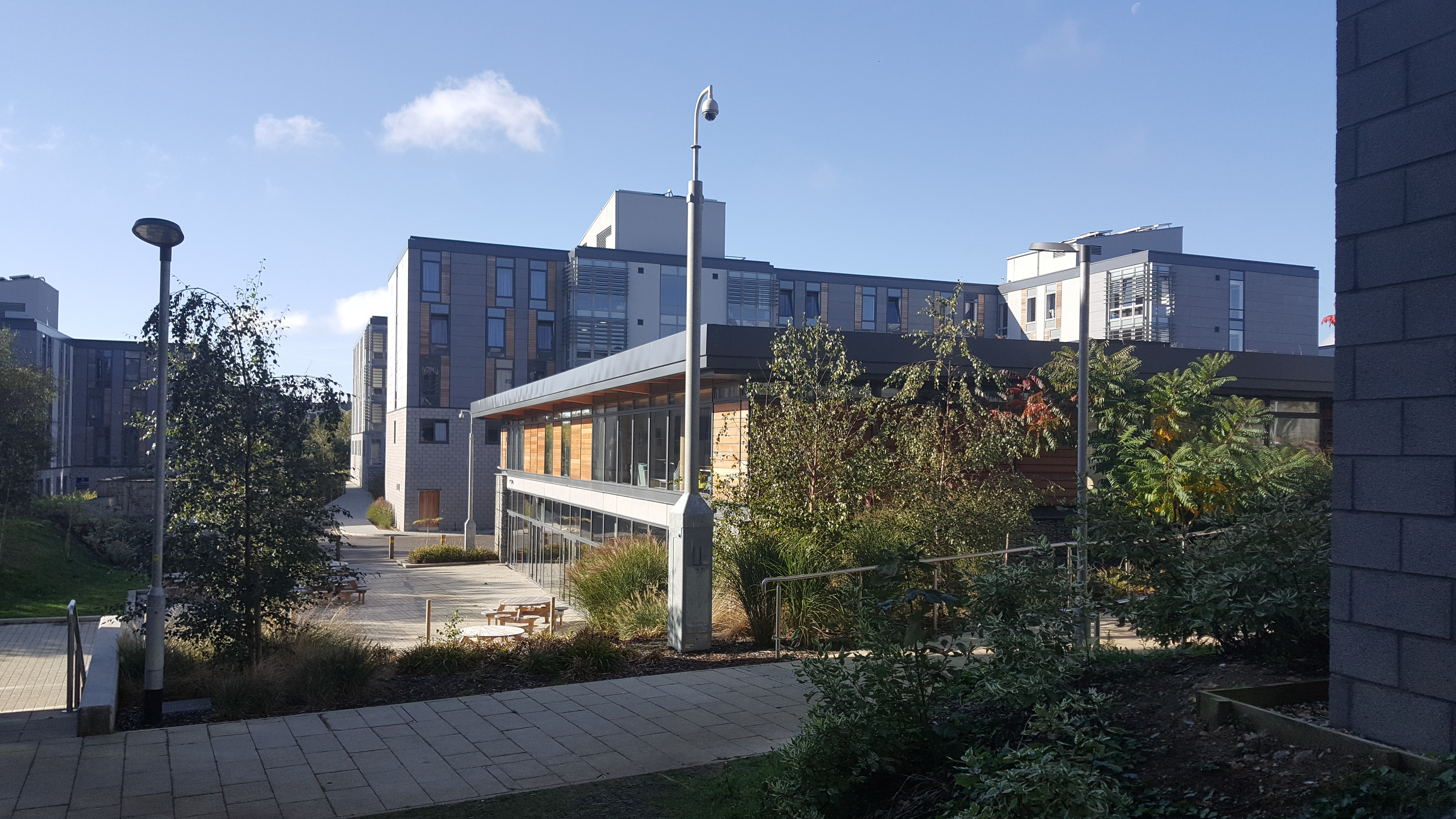 A view of Turing College, one of the strictly residential Colleges on campus.